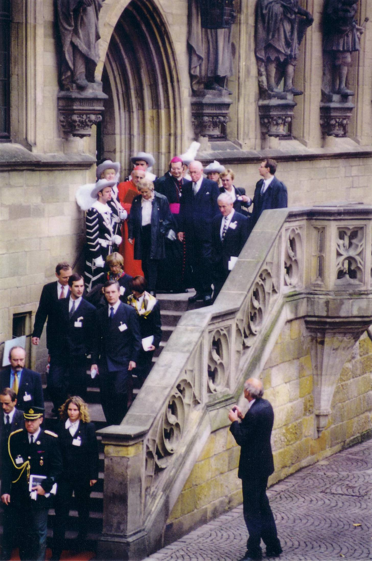 The Estonian President 1992-2001. Here in Osnabrück 1998, Germany, 350 years after the Westphalia Peace Treaty. October 24